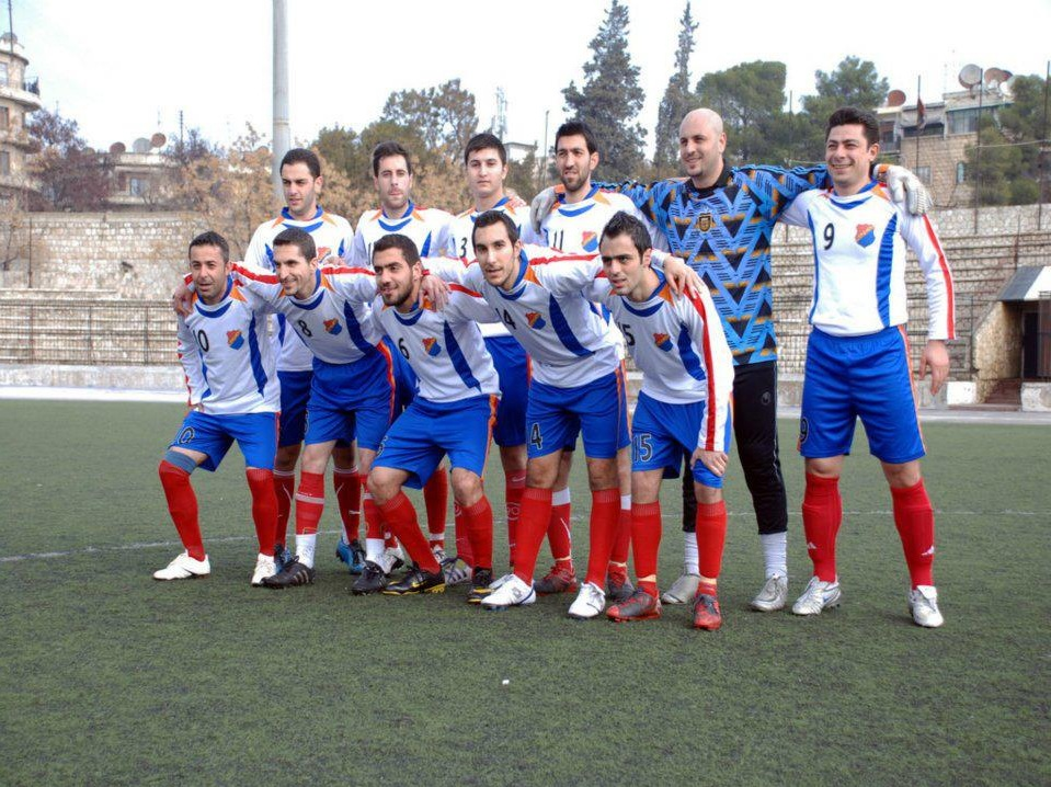 Al-Yarmouk SC Aleppo football team in 2011, Syrian 2nd division.